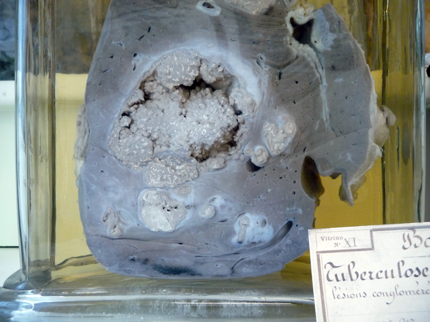 Tuberculosis of the liver of a cow in formaldehyde, conglomerated and softened lesions softened.